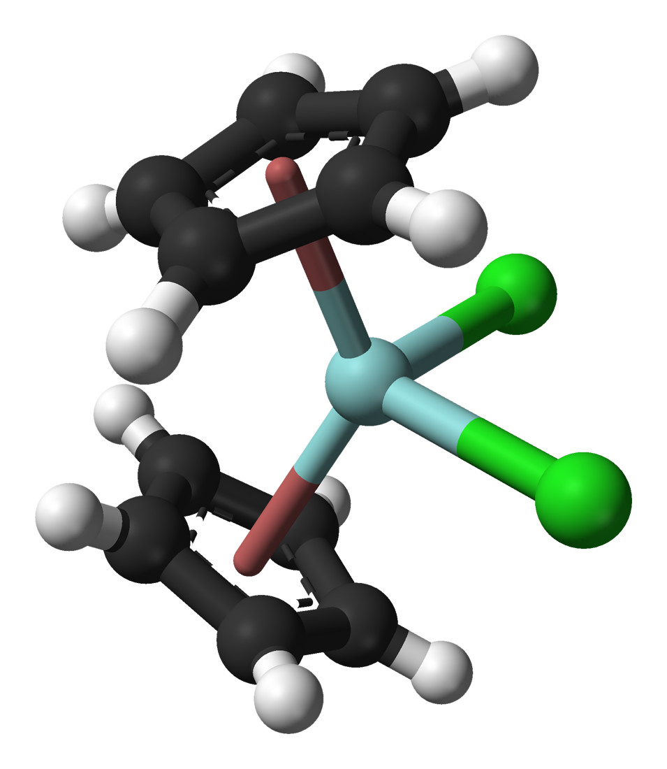 Ball-and-stick model of the zirconocene dichloride complex, [Cp2ZrCl2], as found in the crystal structure. X-ray crystallographic data from Acta Cryst. (1995). C51, 565-567. Model constructed in CrystalMaker 8.1. Image generated in Accelrys DS Visualizer.